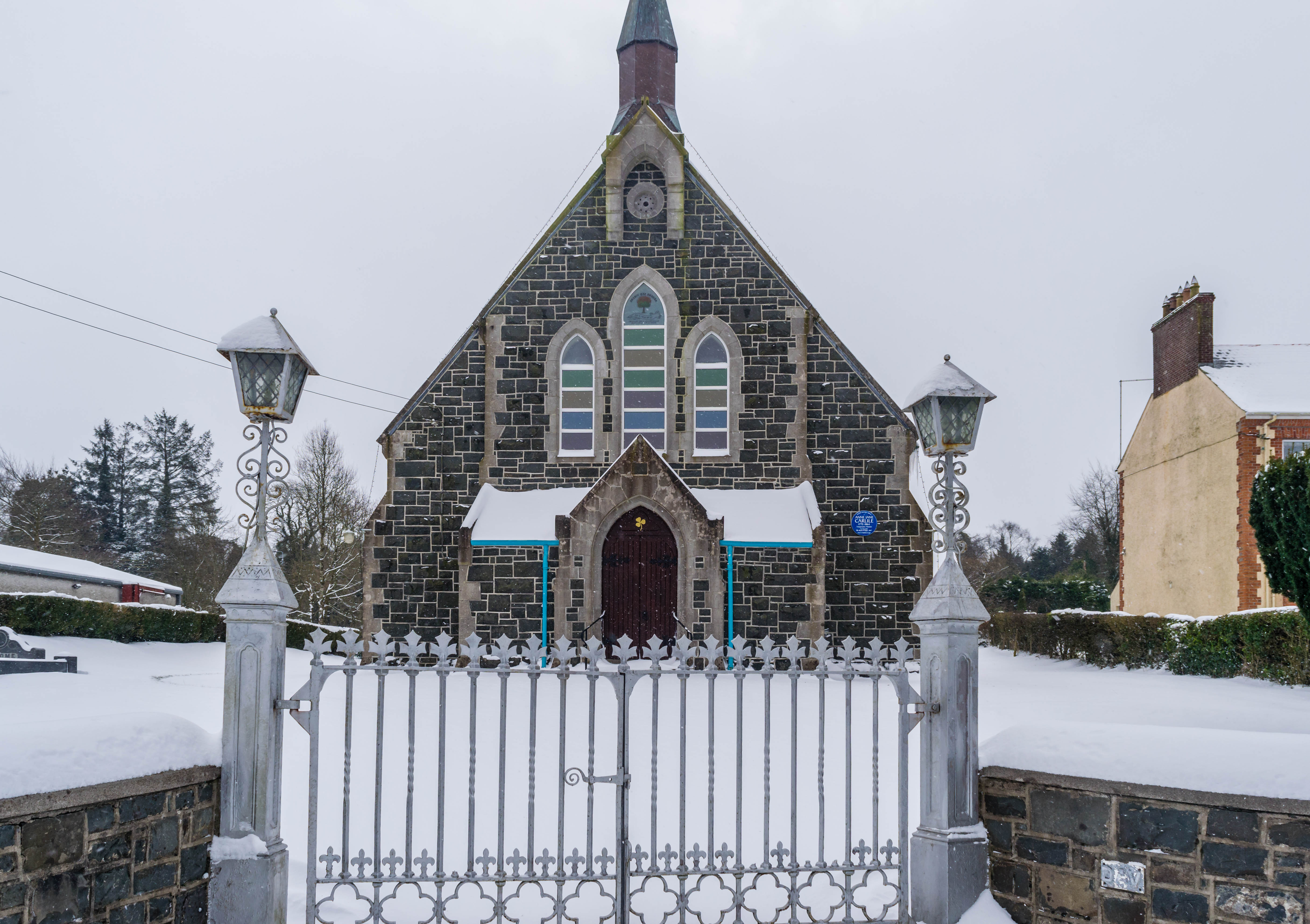 Bailieborough, Trinity Presbyterian Church. Wikidata has entry Q55027690 with data related to this item.